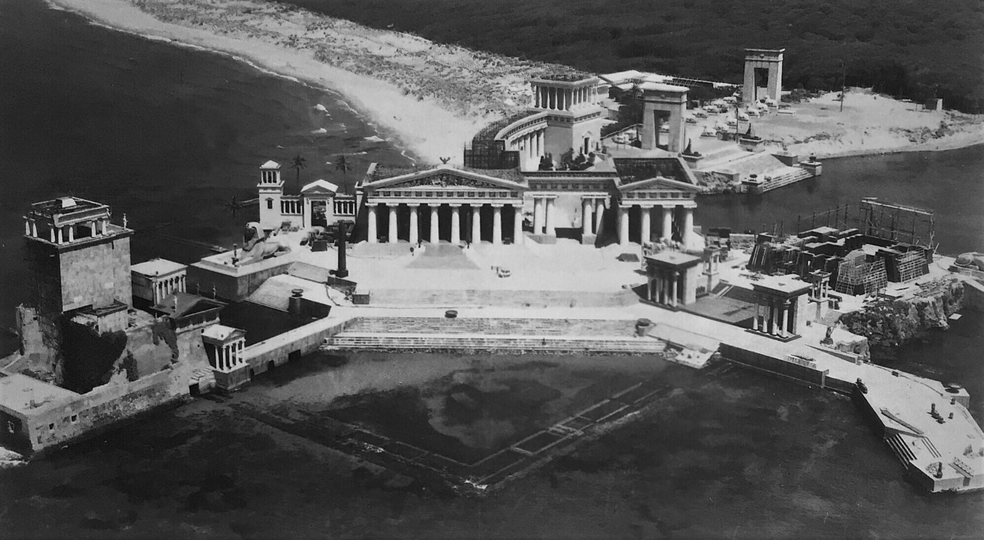 Cleopatra set 1961